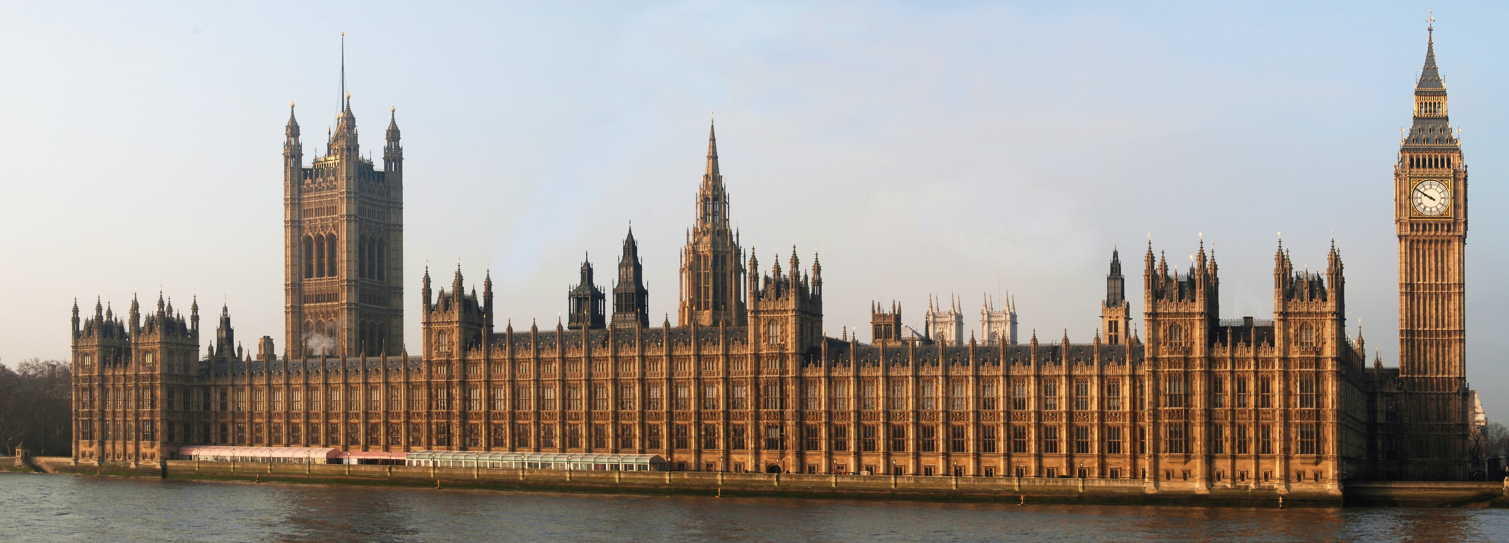 The Palace of Westminster seen from east. Victoria Tower and the House of Lords is on the left. The Clock Tower of Big Ben and the House of Commons is on the right. The spire left of centre is the 300ft ventilation chimney above the central lobby. The twin white towers just visible in the background is Westminster Abbey.